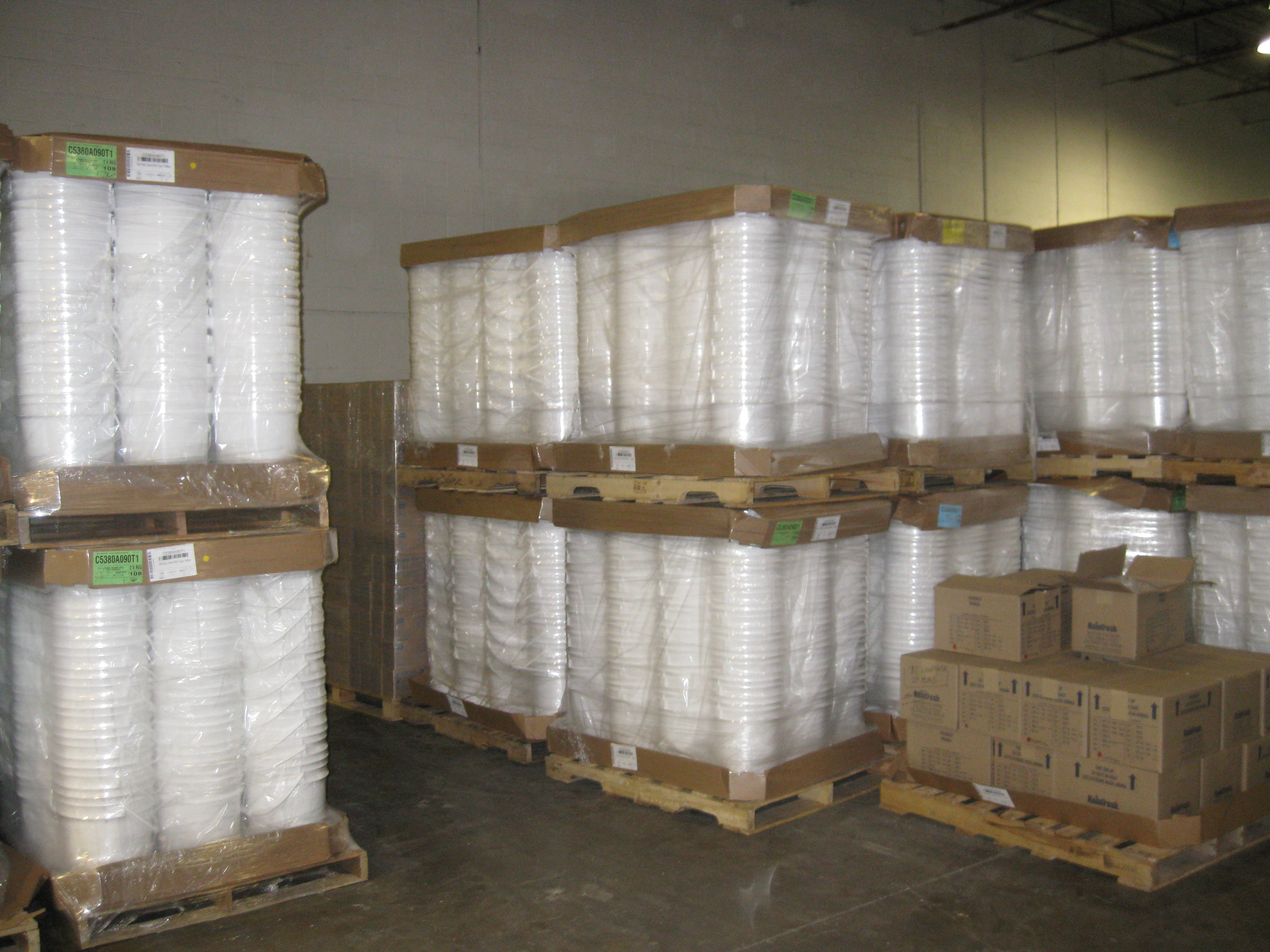 Some of the components of the approximate 2,000 water filtration kits produced by GlobalMedic volunteers in Mississauga, Ontario in the Fall of 2011, for emergency shipments to drought areas in Kenya and Somalia